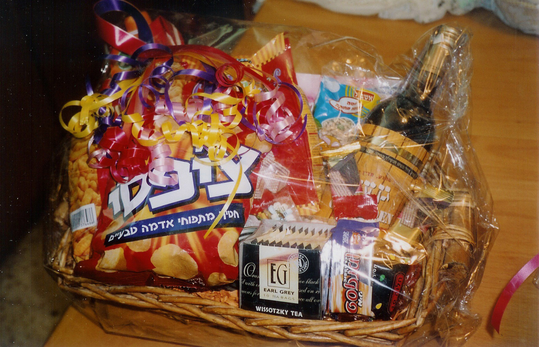 Photo of Purim mishloach manot basket. Photo by Yoninah 01:04, 21 March 2006 (UTC), taken on March 14, 2006.